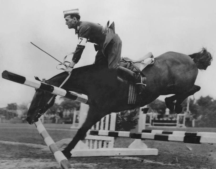 1948 Press Photo Niels Mikkelsen on St. Hans knocks the bars at 3-day Olympic Equestrian Events